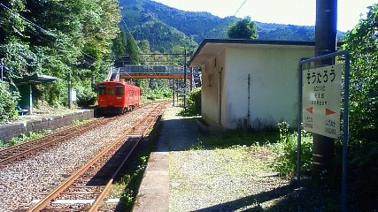 Sotaro Station. Sotaro Station, Saiki.